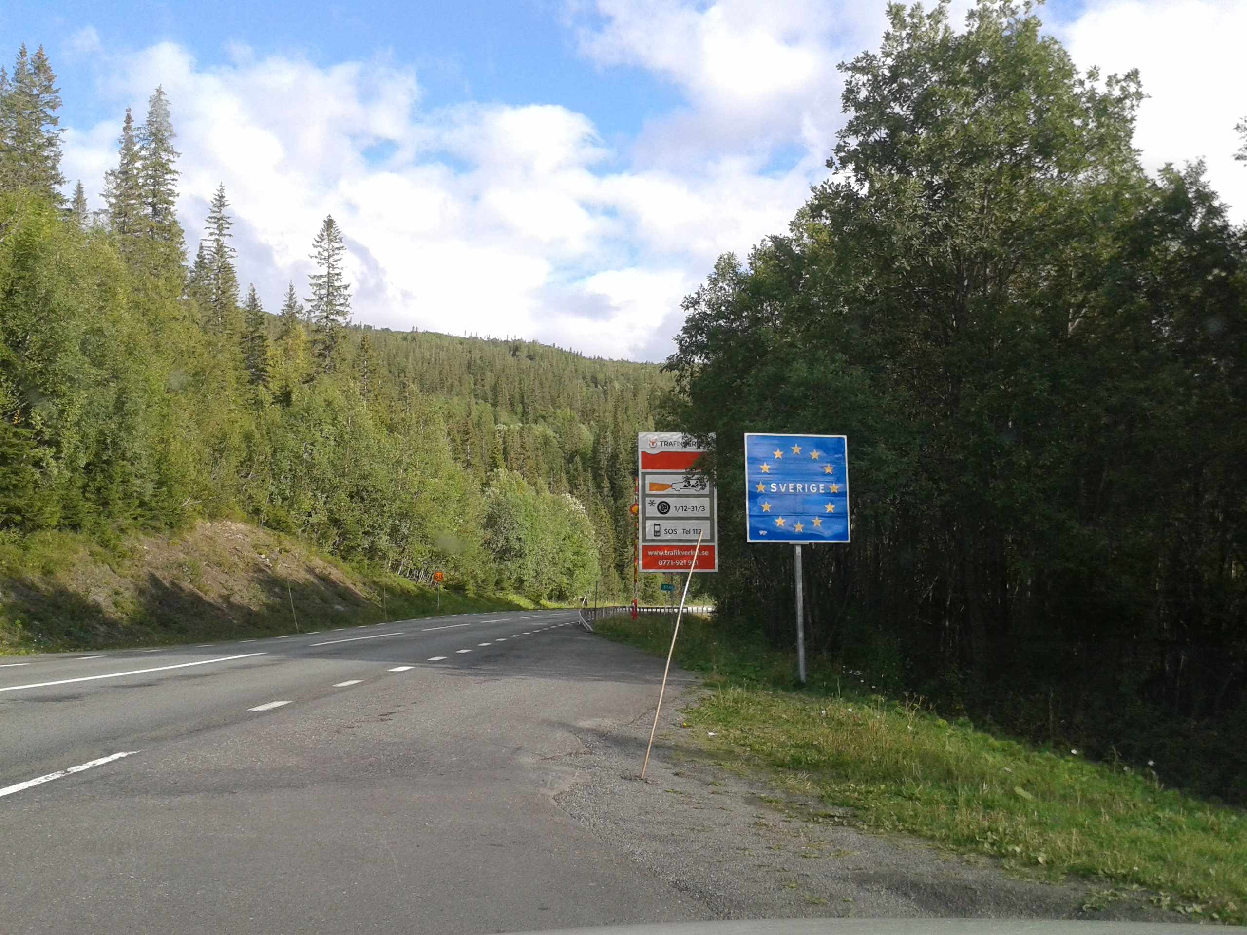 Norway-Sweden border close to Storlien, Åre; European route E14.